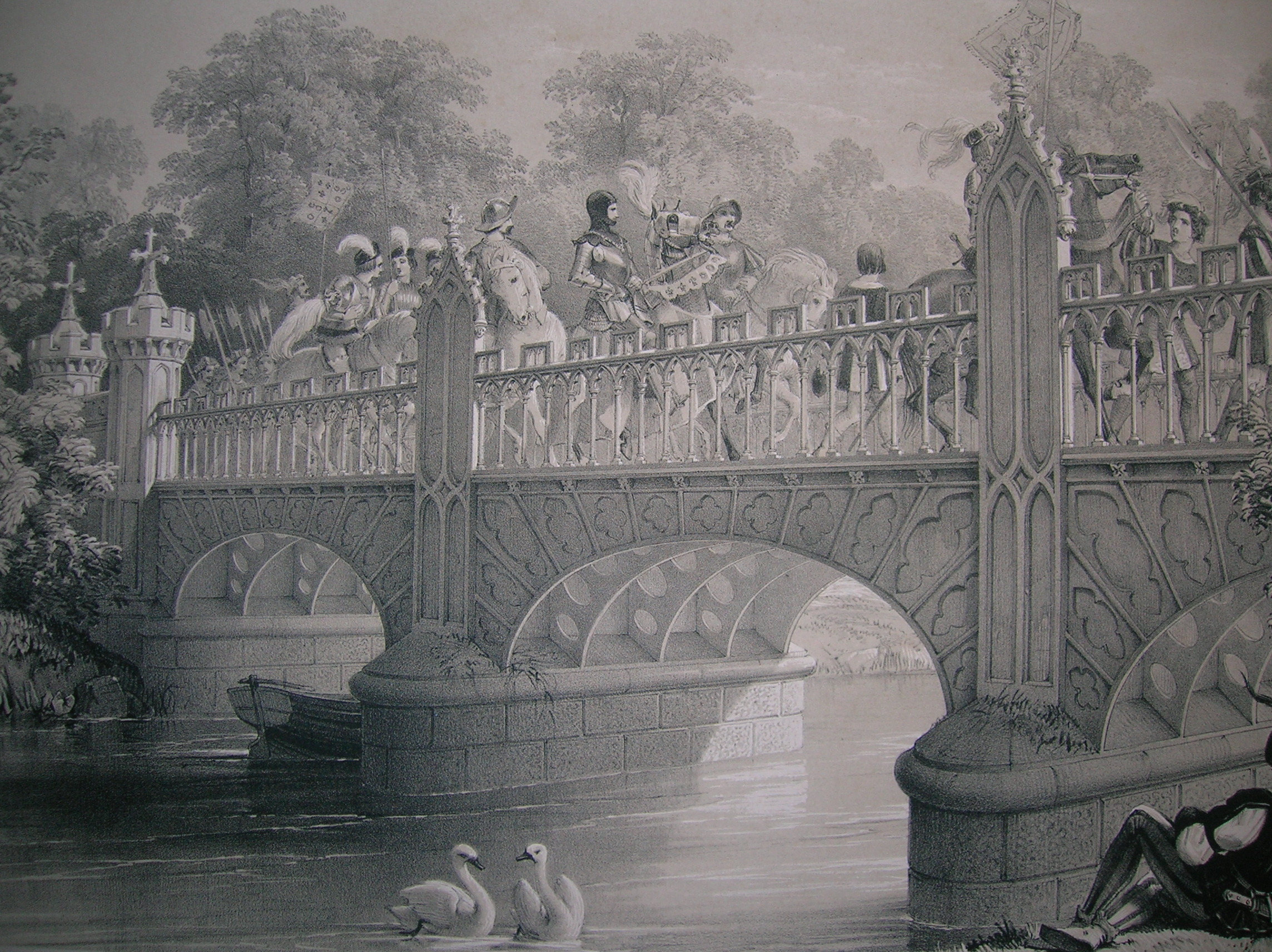 The Eglinton Tournament and the gothic bridge.